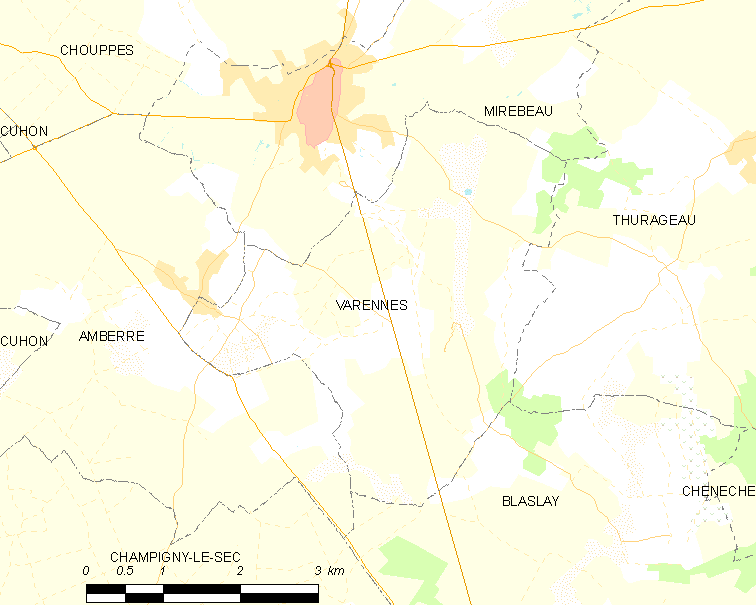 Map of French municipality Varennes